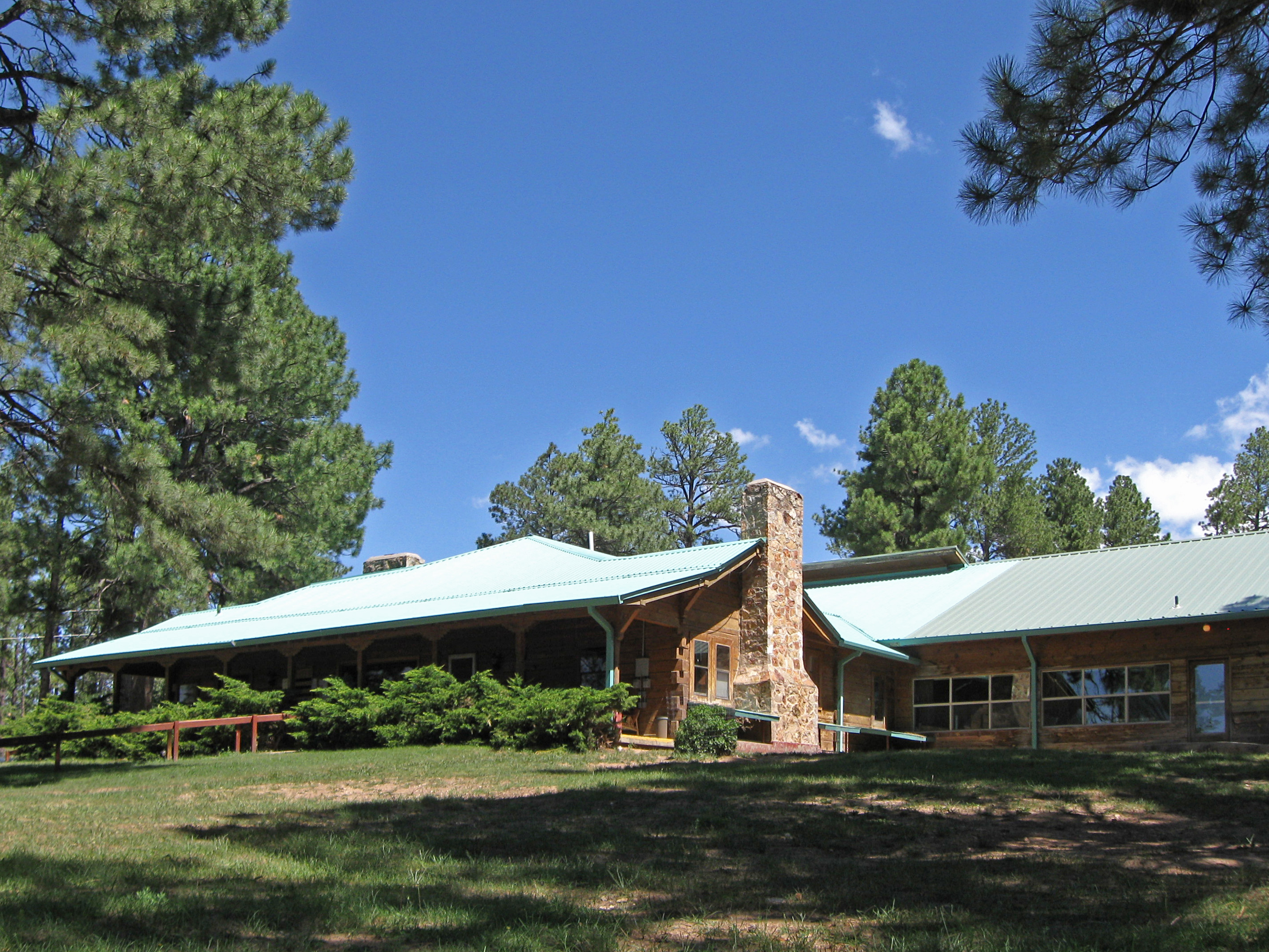 Timberon Lodge, also known as the Community Center, located at the north end of Merlin Drive in Timberon, New Mexico. The public library and the offices of the water district are housed here.